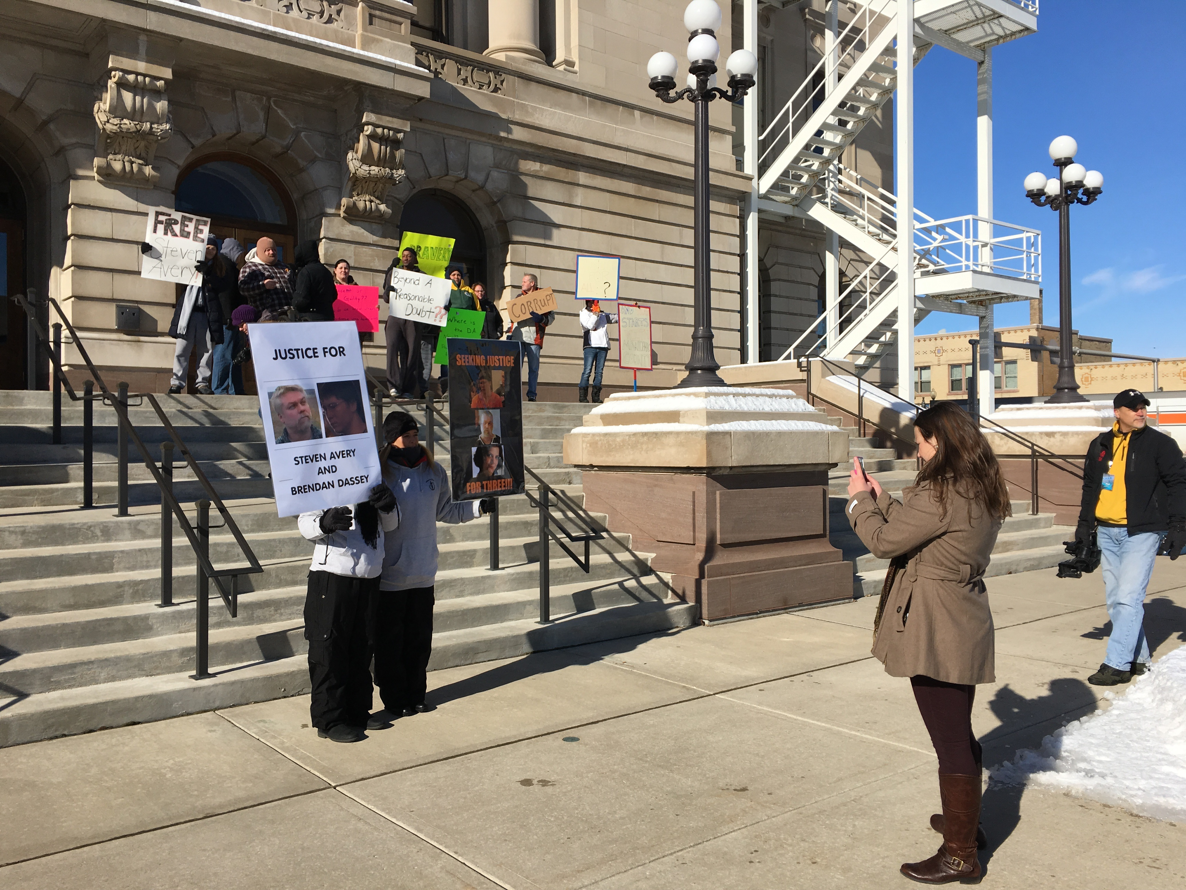 Protestors for both sides gathered outside the Manitowoc County Courthouse for a demonstration sparked by the popularity of Netflix's Making A Murderer documentary series.